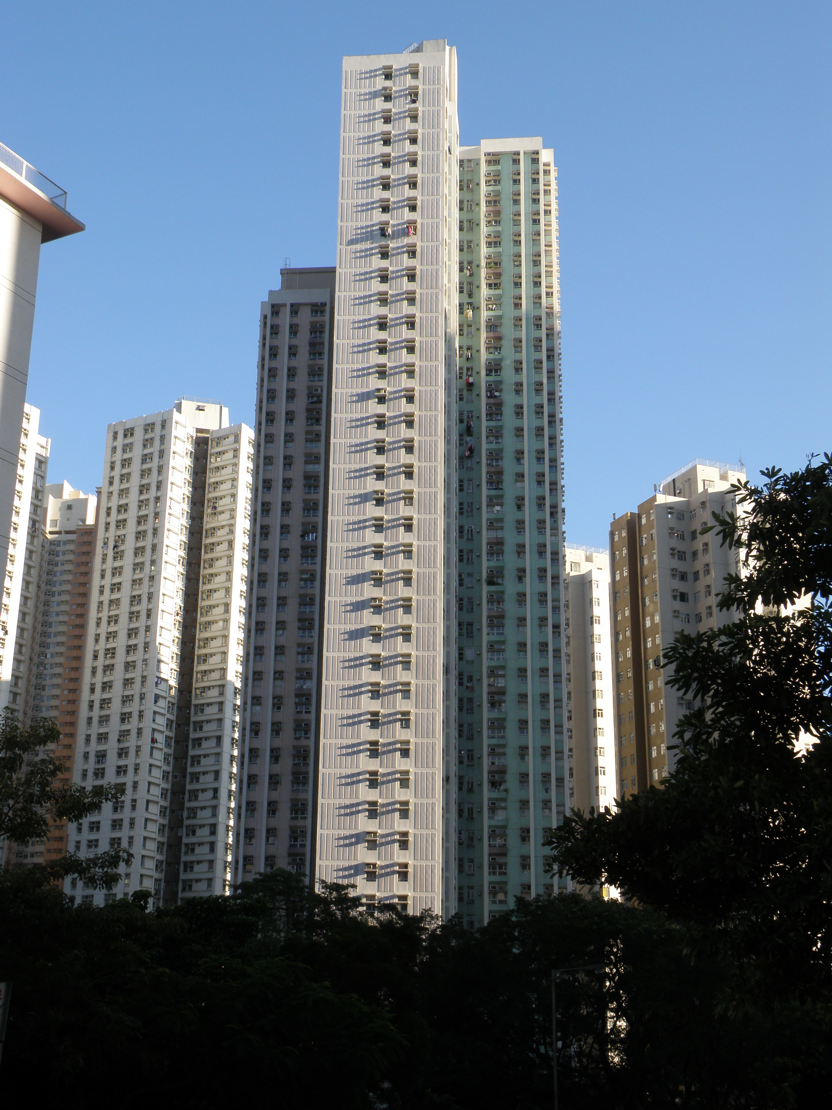 King Hin Court in Hammer Hill, Hong Kong.